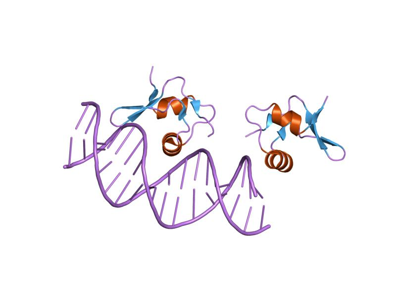 Cartoon representation of the molecular structure of protein registered with 2og0 code.